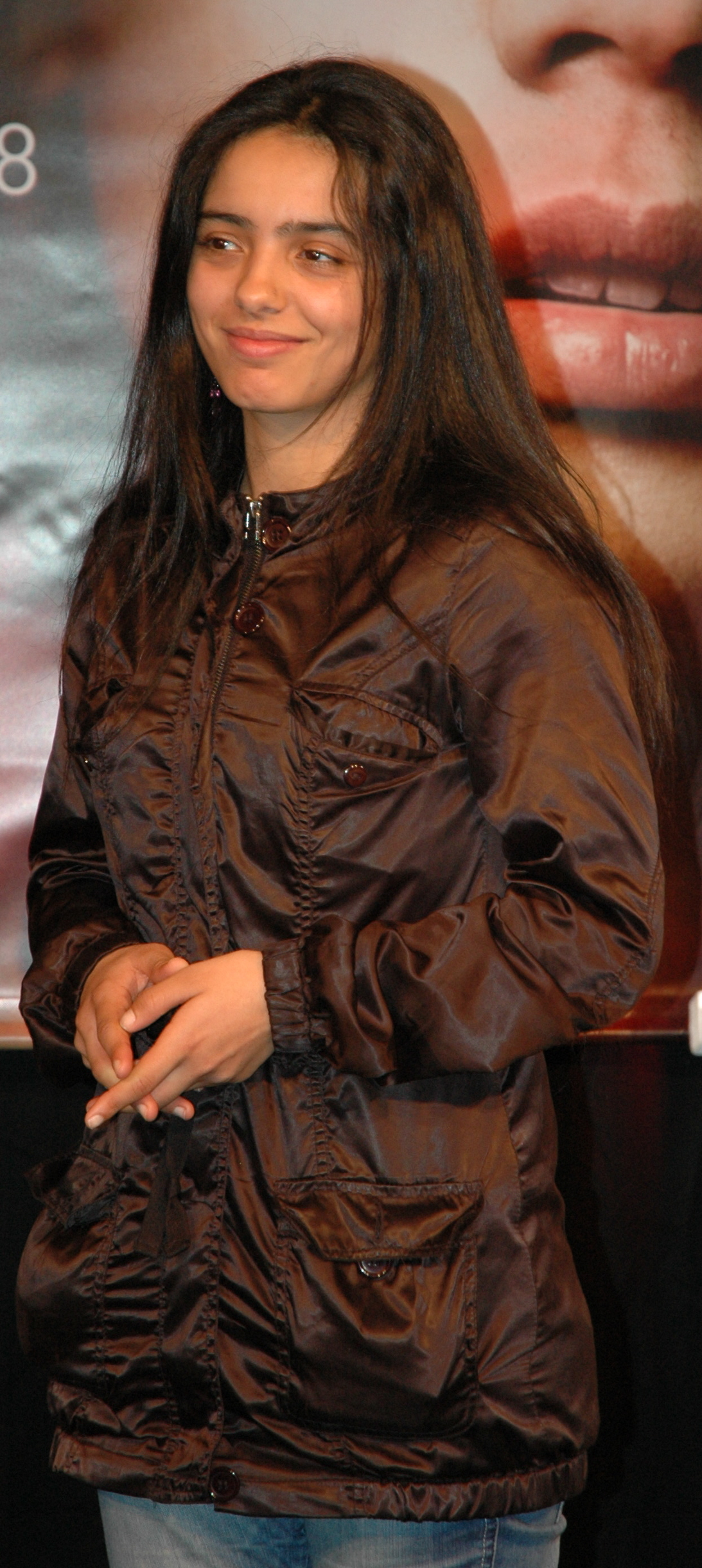 French Actress Hafsia Herzi in April 2008 at the Crossing Europe Film Festival Linz, Austria